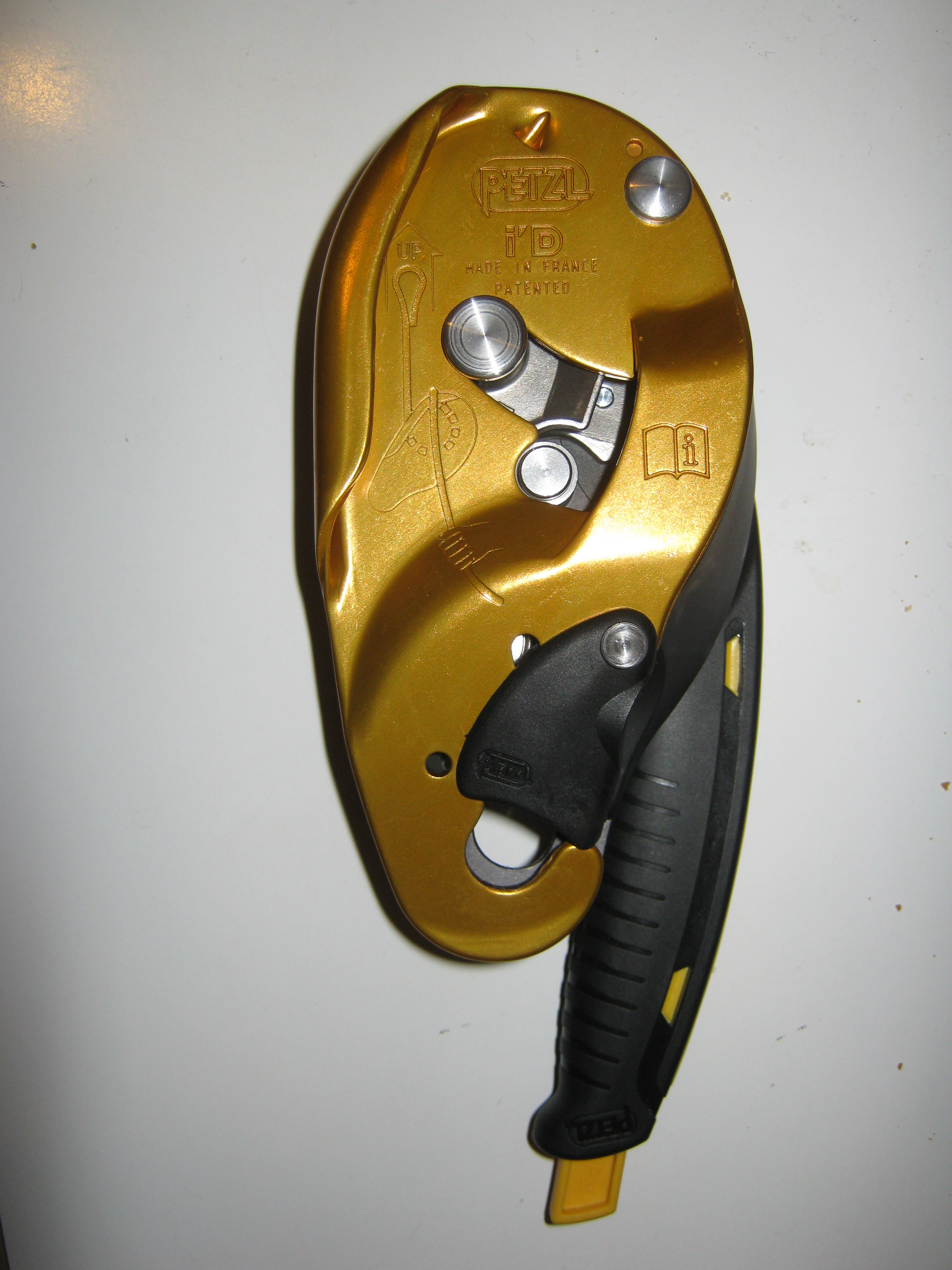 Petzl I'D S